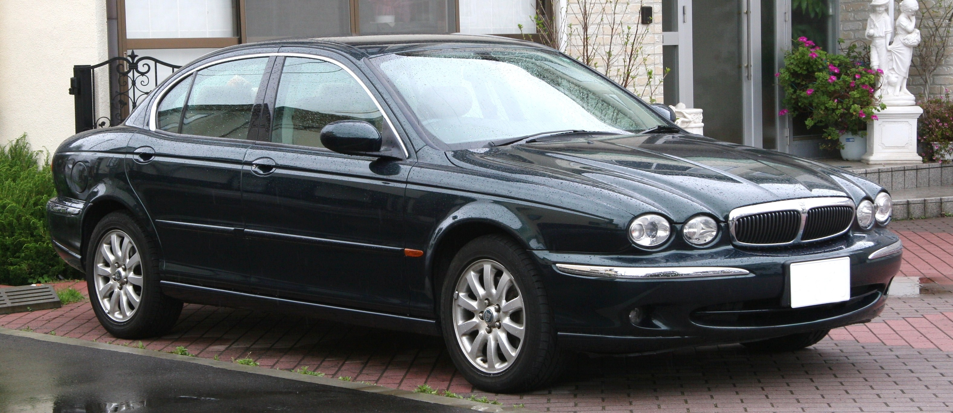 Jaguar X-Type